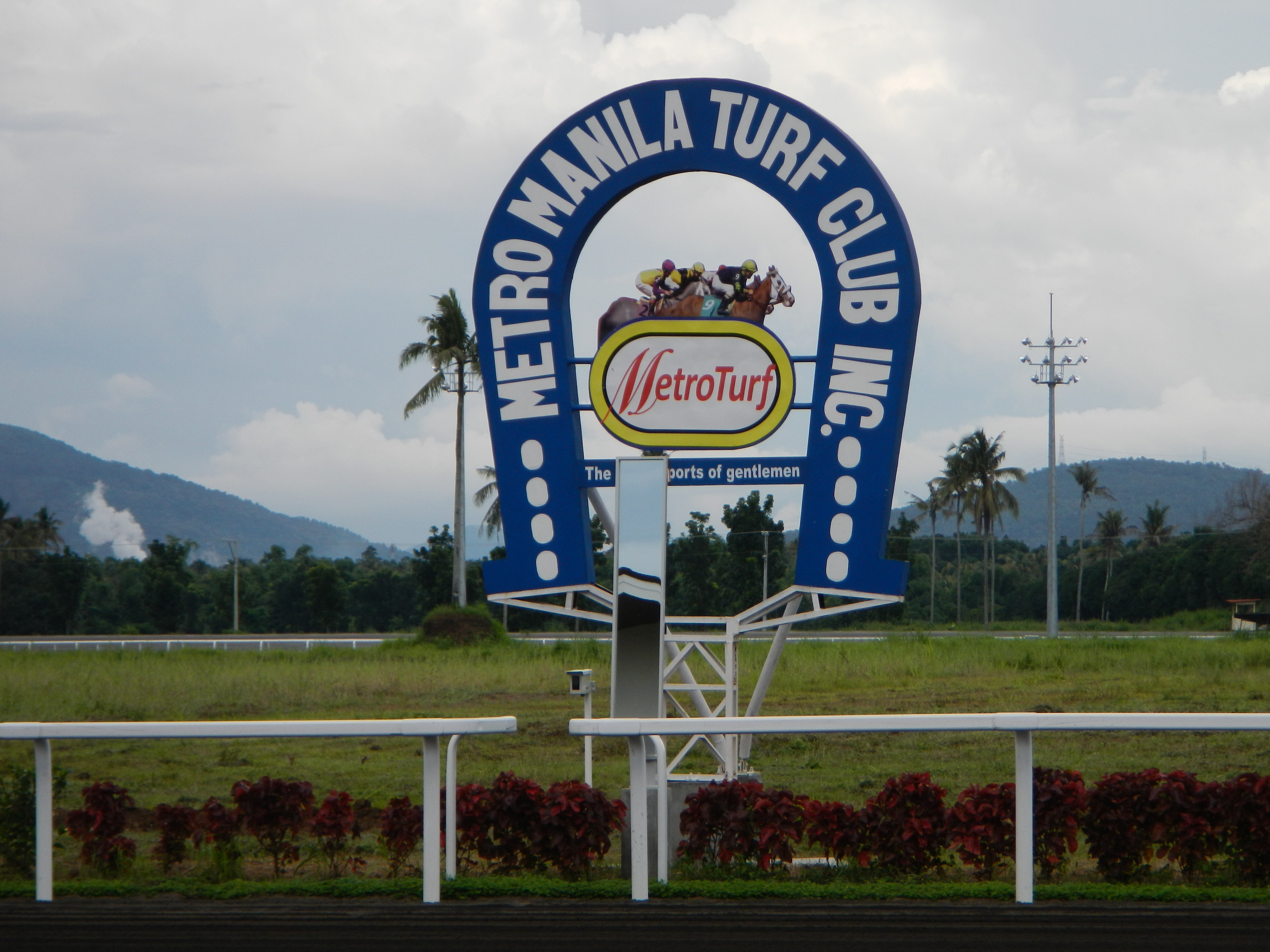 Metro Manila Turf Club Race Track (List of sports venues in Metro Manila[1]) -- Race track[2] -- Malvar, Batangas [3] --Website Official FB [4] World-class racetrack sets opening Metro Turf Club, Inc. Race Track, located on the boundary of Malvar town and Tanauan City, opened in February, 2013 with world-class facilities with majestic Mount Makiling [5] serving as backdrop is the third racetrack in the country after the San Lazaro Leisure Club in Carmona and the Santa Ana track in Naic, both in Cavite - constructed on a 45-hectare lot by renowned Singaporean racetrack builder K.K. Kumar. The racetrack is 1,525-meter long and has 4 chutes. Dr. Norberto Quisumbing, owns Metro Turf. 46 lighting posts—39 around the oval and 7 attached to the grandstand with General Electric technology and United Tote, gaming totalizator, with wide-screen LED televisions - Metro Turf can be accessed through the main entrance at the President J.P. Laurel Highway in Malvar. New racetrack to open in Batangas January 19, 2013 -- Malvar, Batangas [6] is a second class municipality in the Province of Batangas[7], Philippines. As of 2009, the population of Malvar was 41,270 and the total number of households was 8,678. The municipality was named after General Miguel Malvar[8], the last Filipino General to surrender to the American Government in the Philippines in 1902.[9] Geographical location: Batangas, Region 4, Philippines, Asia geographical coordinates: 14° 2' 41" North, 121° 9' 31" East [10] Coordinates: 14°1'55"N 121°8'42"E